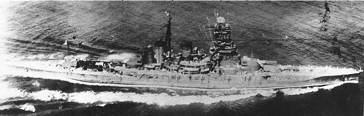 The Japanese battleship Hiei underway in Tokyo Bay, Japan, on 11 July 1942.